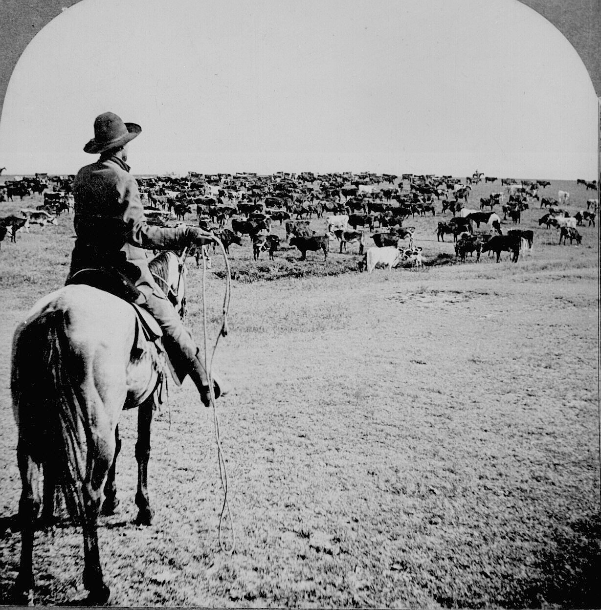 cowboy handling cattle